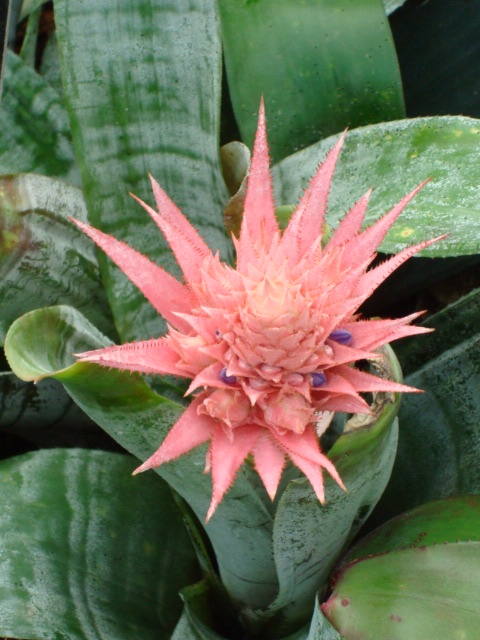 Picture of Aechmea fasciata